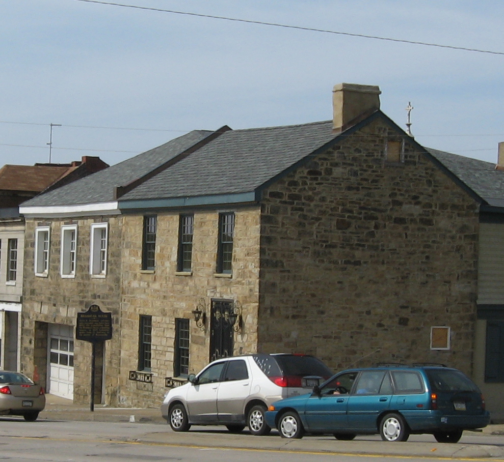 The former Brashear House, an inn built in 1797 that served as lodging for such politicians as Andrew Jackson and Henry Clay. Part of the Brownsville Northside Historic District, a historic district that is listed on the National Register of Historic Places.